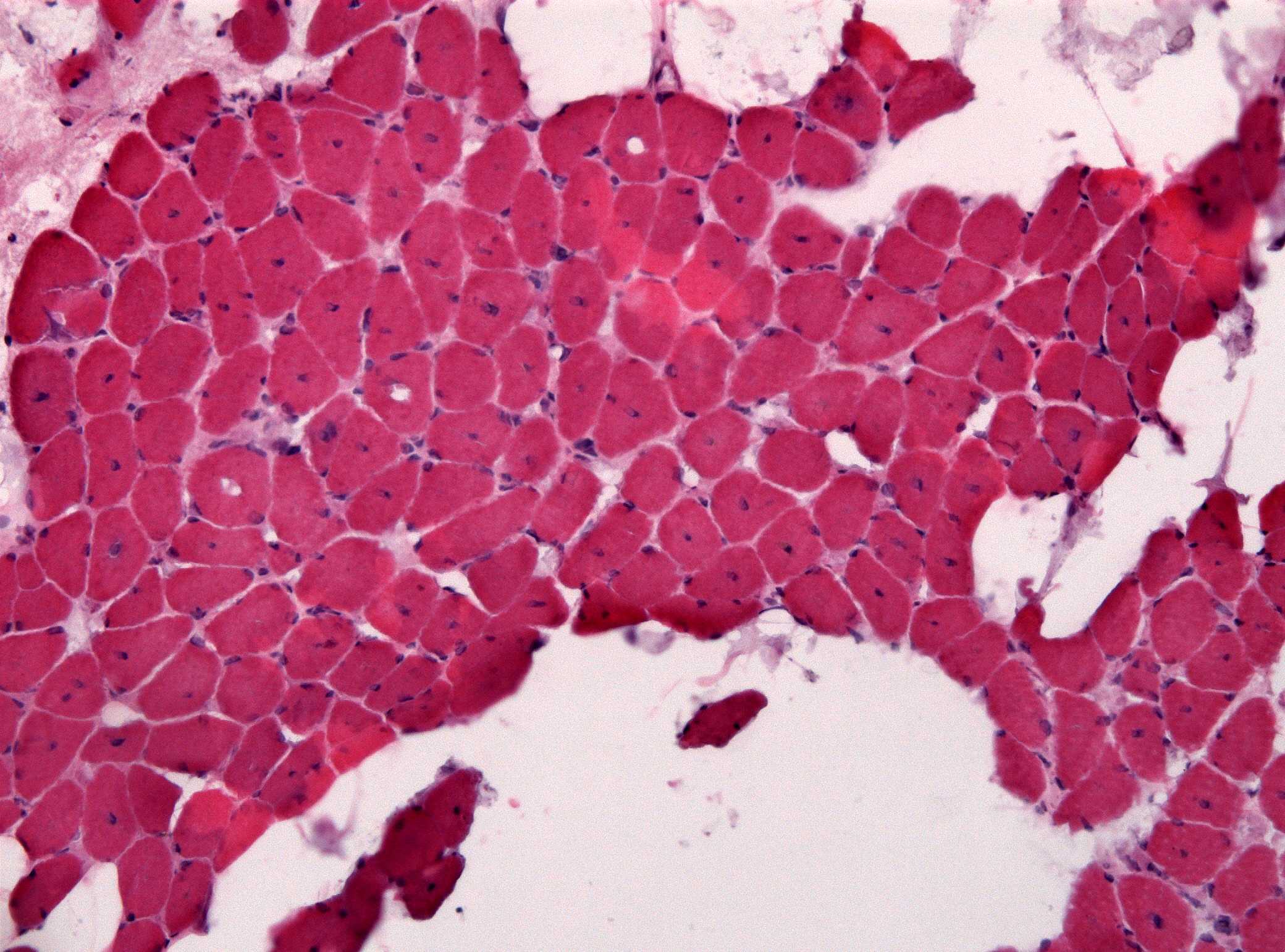 Muscle biopsy of a 70-year old female showing histological picture of centrunuclear myopathy, am adult-onset congenital myopathy.